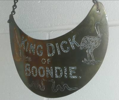 Chest plate belonging to King Dick of Boondie, chief of the Palparara tribe of western Qld in the Winton-Windorah area, near Julia Creek. This plate is on display at the Miles & District Historical Village. King plates were a form of regalia used in pre-Federation Australia by white colonial authorities to recognize local Aboriginal leaders.